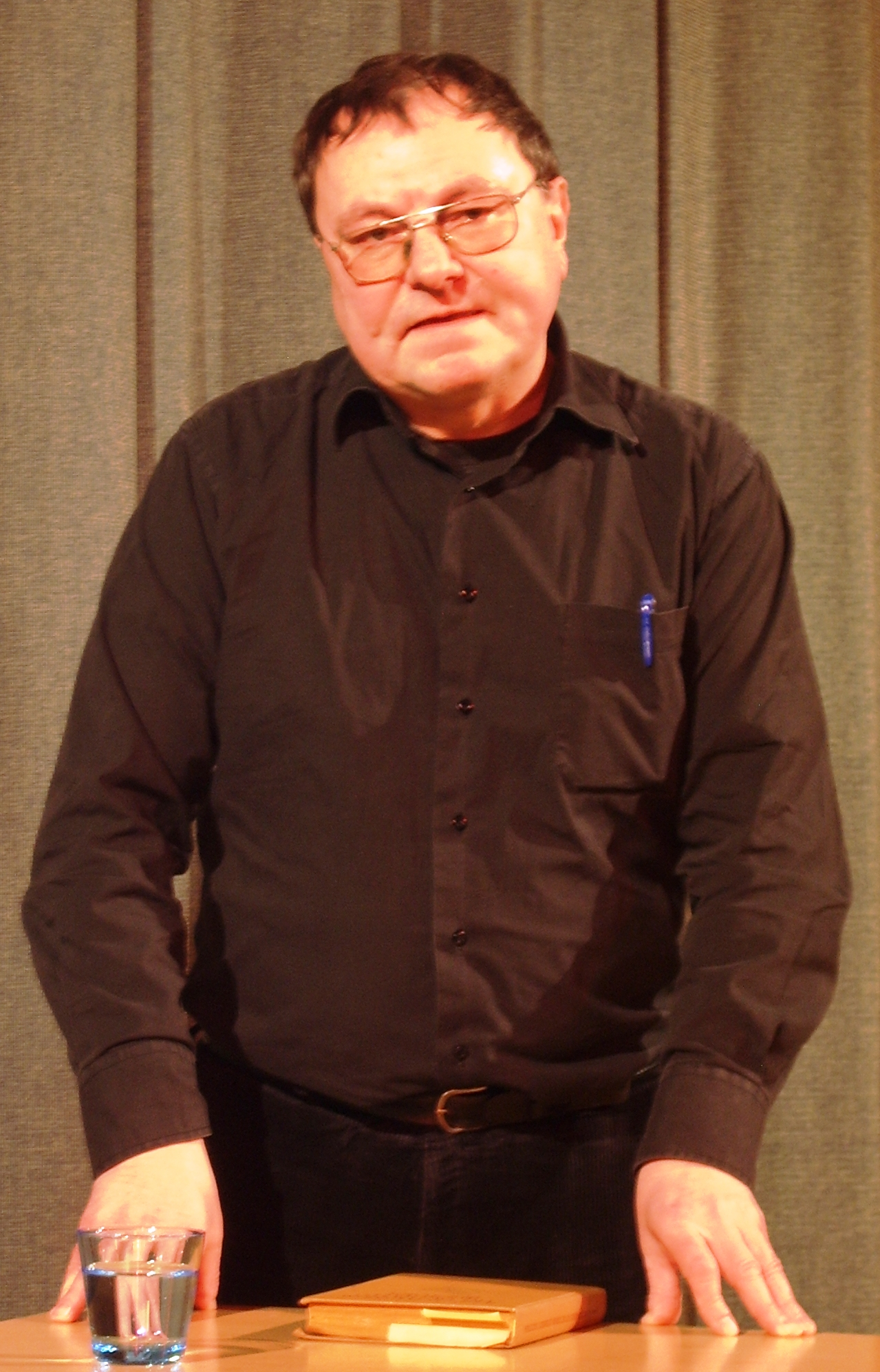 Sergei Stadnikov (born 1956) is Estonian egyptologist.